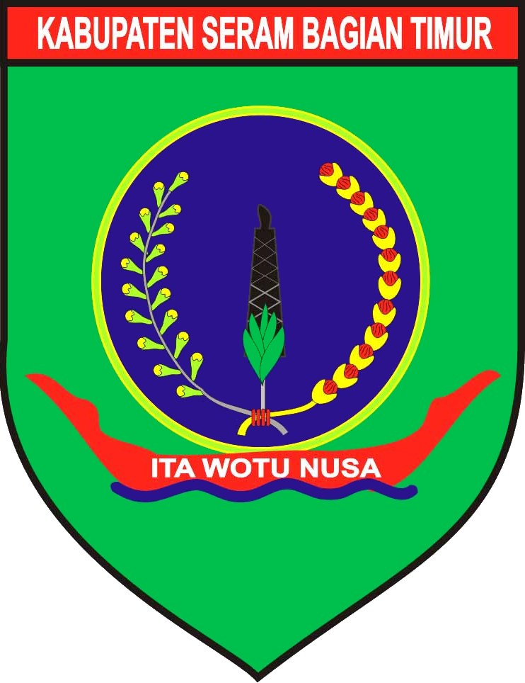 Coat of Arms (Lambang) of Regency (Kabupaten) Seram Bagian Timur, Provinsi Maluku (the Molucca islands, aka The Spice Islands), Indonesia